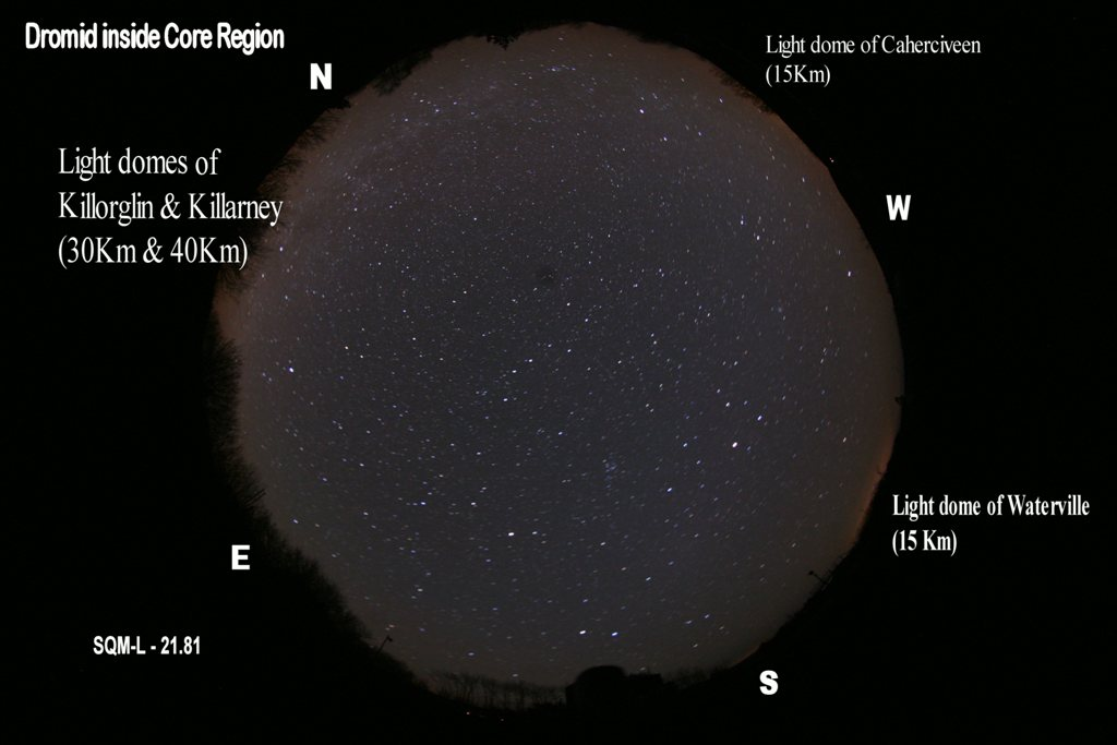 This is an all sky photo of the skies inside the Core Zone of the Reserve. Note the lack of light pollution at the edges.